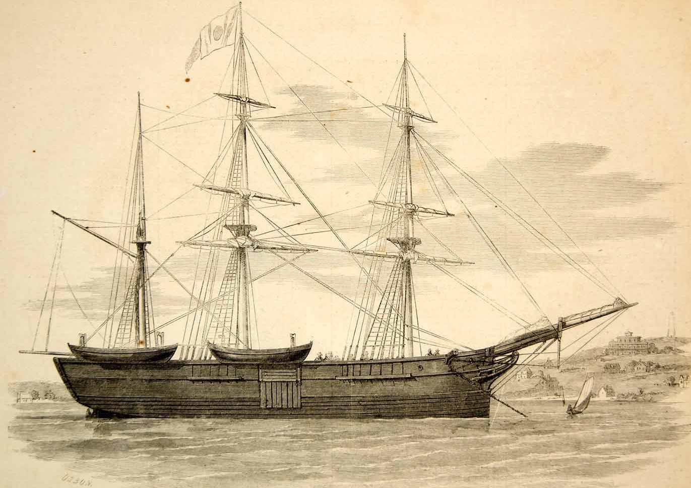 "The bark George Henry, Captain Sidney O. Budington, of New London, which started for the Arctic regions on Tuesday, May 28, 1860."